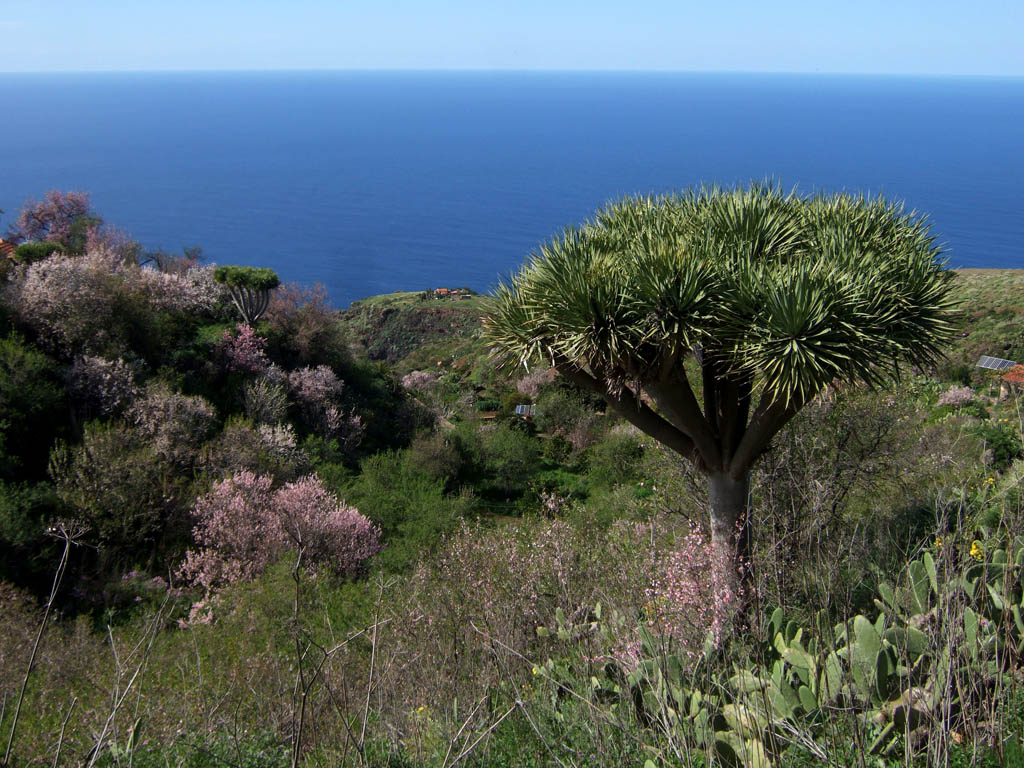 Landscape with Drago near Puntagorda, La Palma